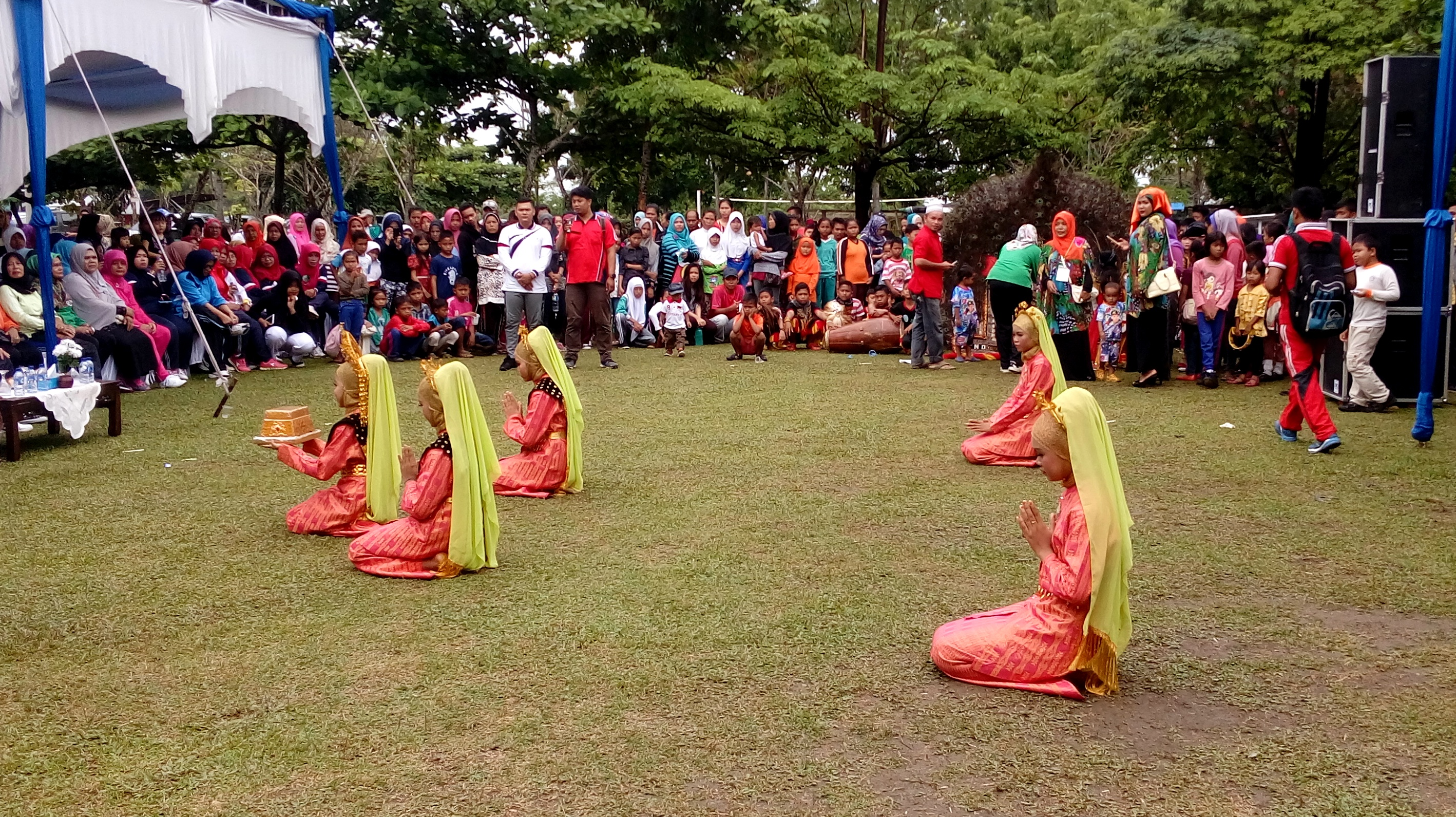 This picture was taken when there was a campaign for the election of mayor in 2015, local girls performed dance 'Persembahan' to welcome the prospective mayor of Firdaus